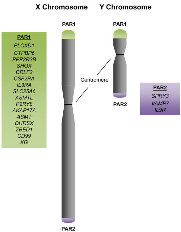 The Pseudoautosomal regions and genes. Schematic of the X and Y sex chromosomes with the distal pseudoautosomal regions (PARs). PAR1 contains 16 genes, with PLCXD1 as the furthermost PAR1 gene at the distal telomeric end and XG at the boundary of PAR1 at the centromeric end. PAR2 contains 3 genes, with SPRY3 at the centromeric boundary and IL9R at the distal telomeric end.